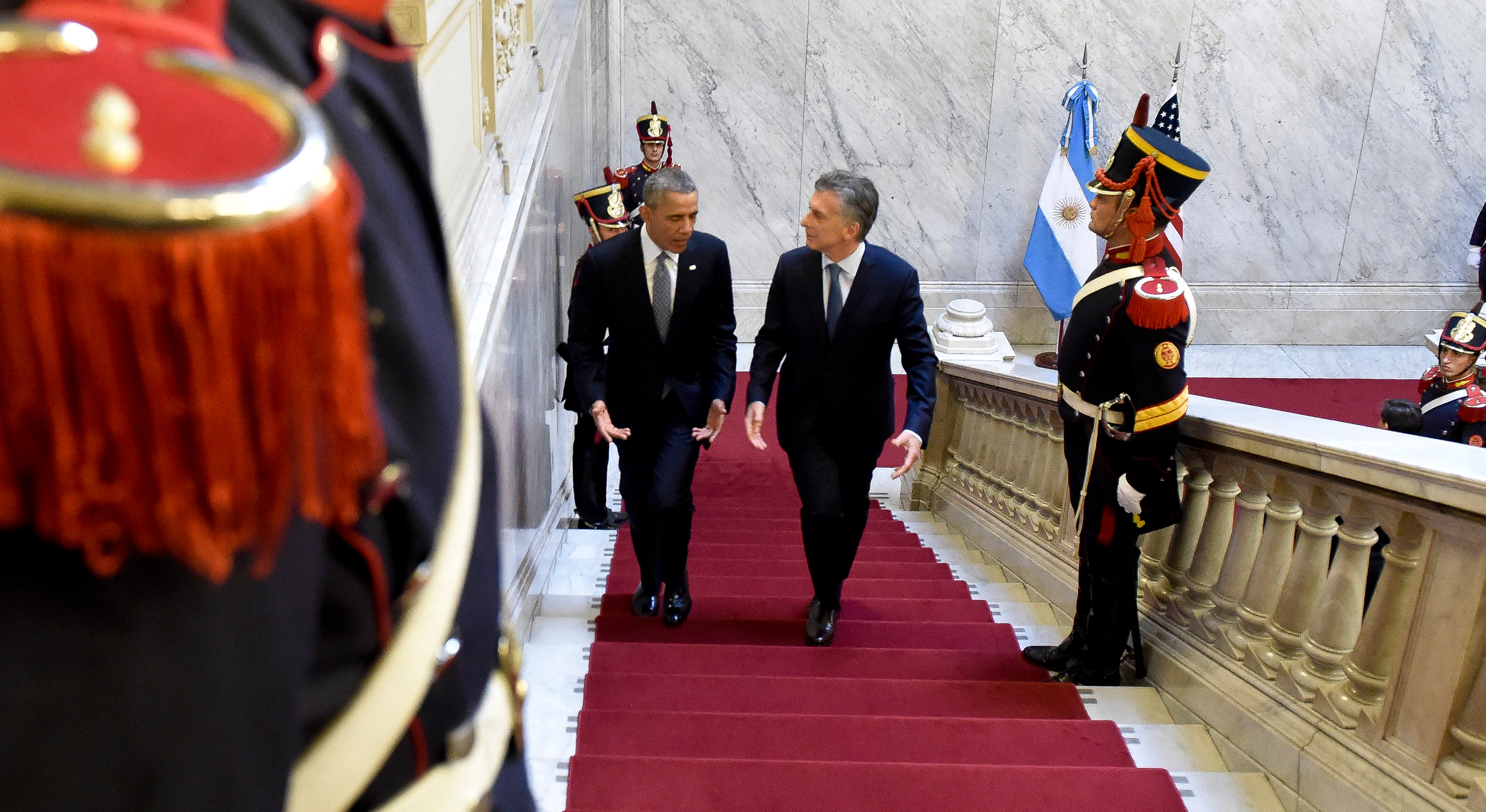 Mauricio Macri & Barack Obama on the Pink House.